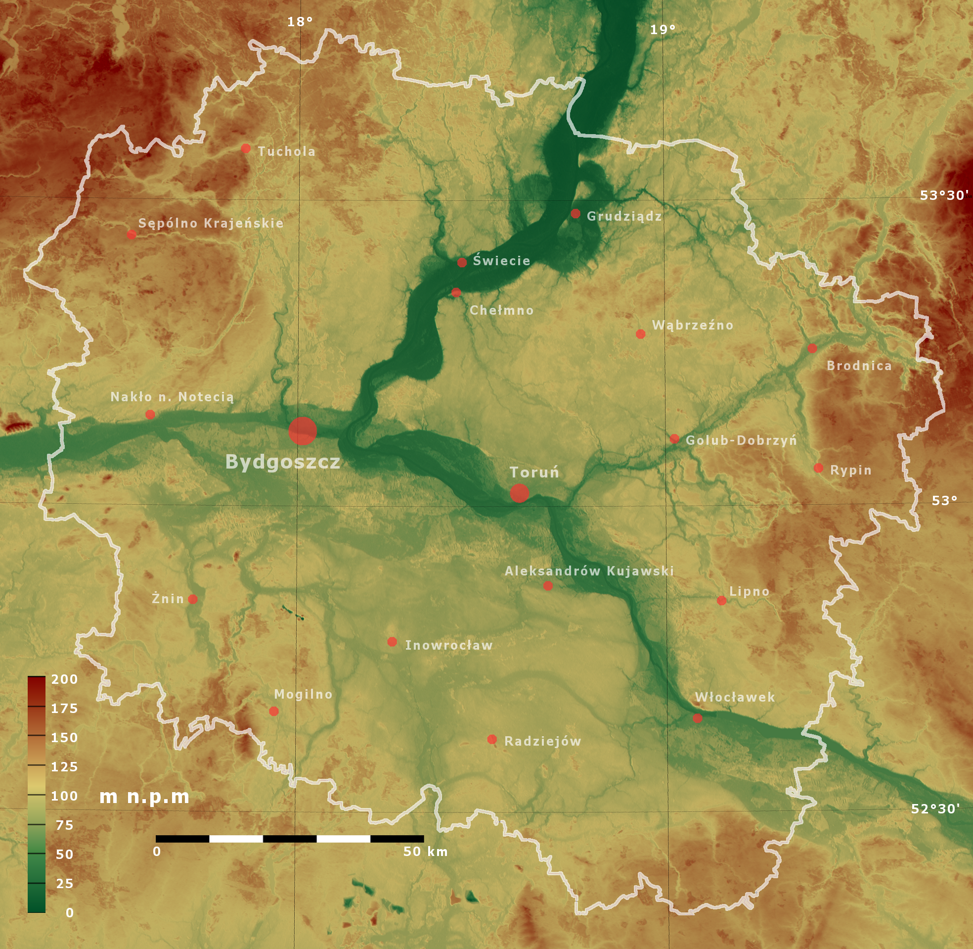 Map created with 3DEM from SRTM ( Administrative boundaries from OpenStreetMap.